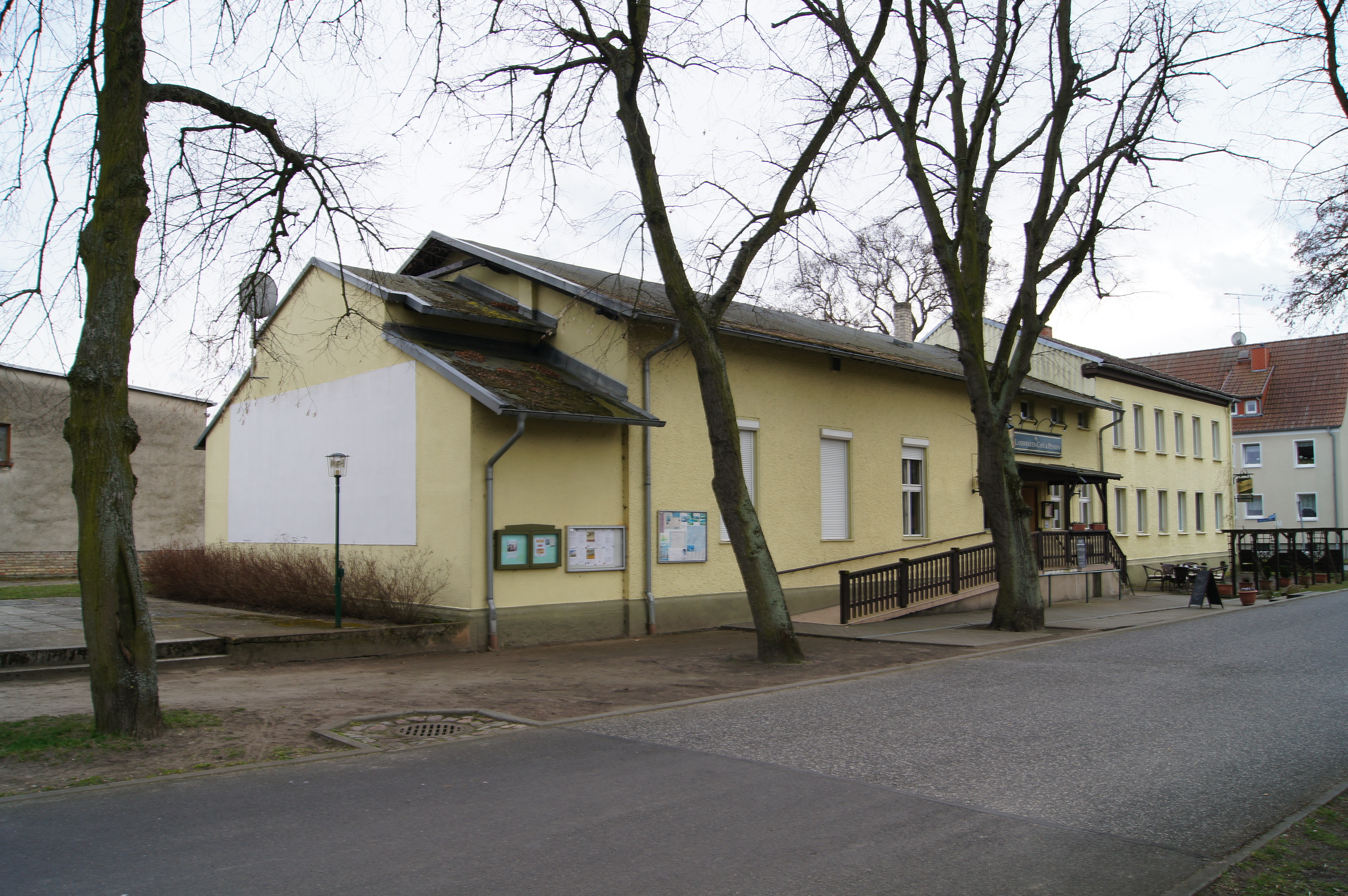 Landfrauencafé in Gross Neuendorf, Letschin, Brandenburg, Germany